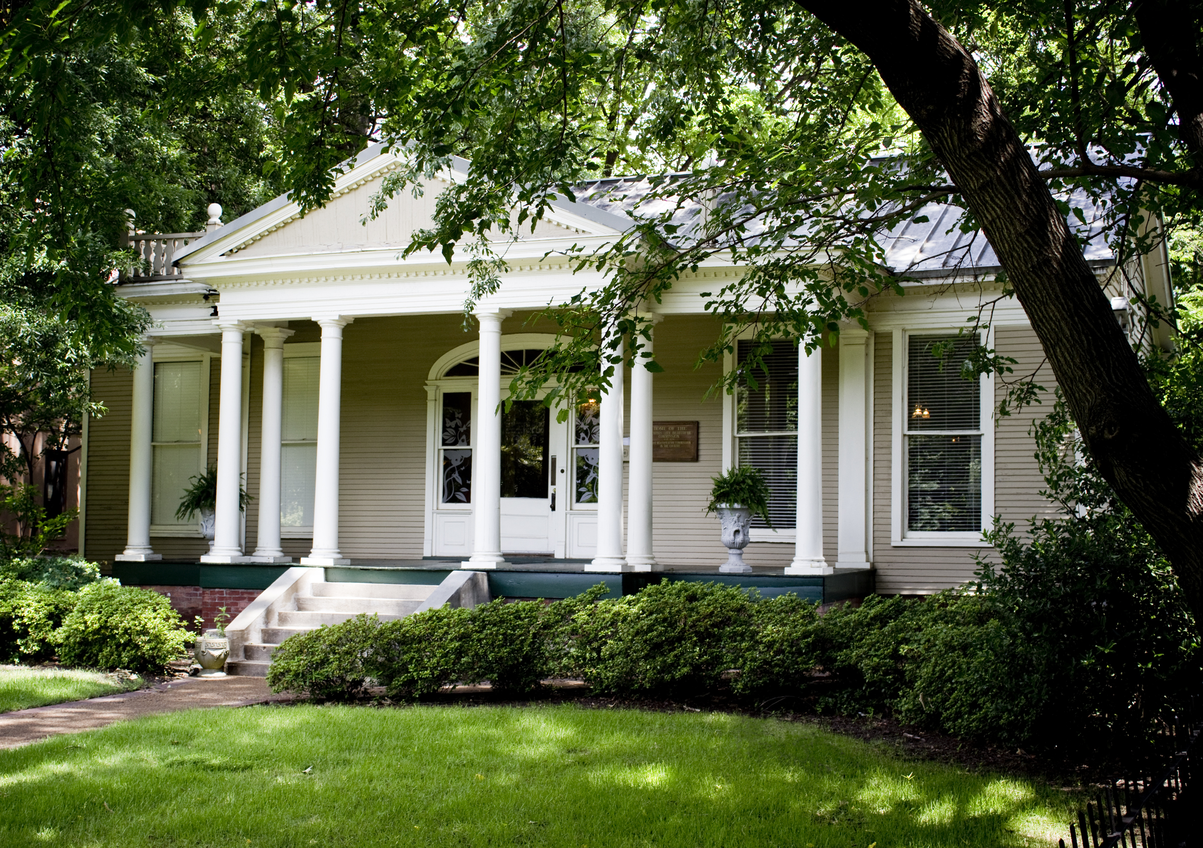 Massey House, home of Memphis City Beautiful